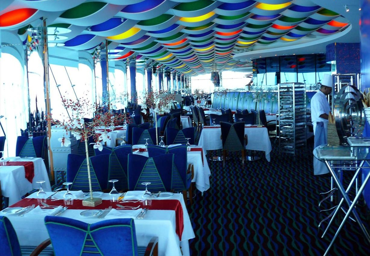 This is a photo of Al Muntaha, a restaurant at the top of the Burj Al Arab in Dubai, United Arab Emirates, on 25 December 2007. The restaurant is being prepared for Christmas Dinner.